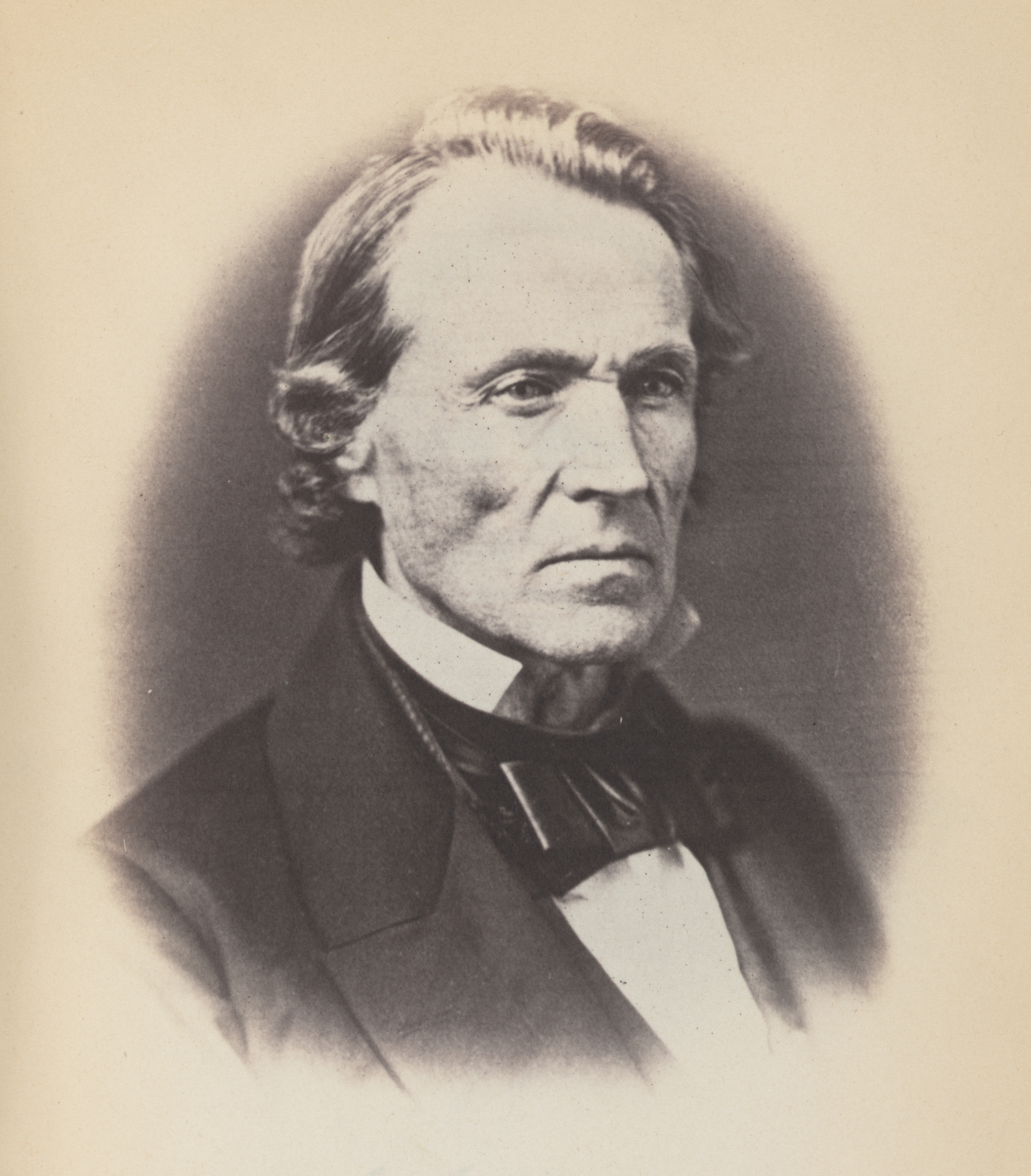 John Dick, US Representative from Pennsylvania